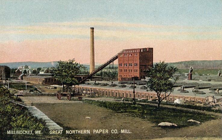 The Great Northern Paper Company mill — in Millinocket, Penobscot County, Maine. The factory had an output of 300 tons of finished paper per day. It provided most of the newsprint paper for newspapers printed in the United Staes